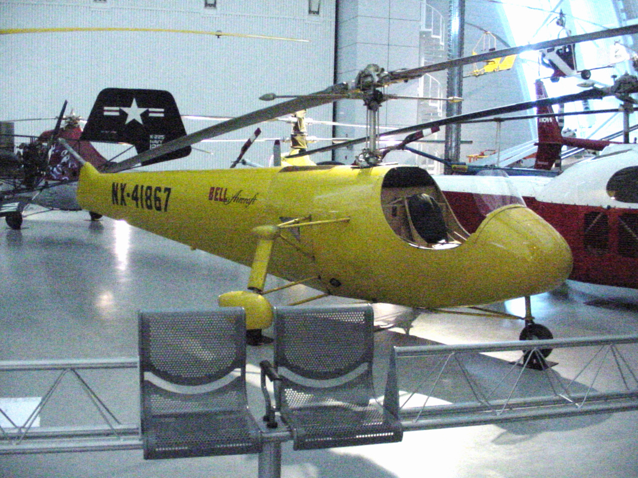 Bell Model 30 Ship 1A "Genevieve", NX 41867, Smithsonian item number A19650240000